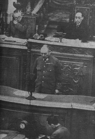 Prime Minister Kuniaki Koiso (1880–1950, in office July 1944–April 1945) gives Policy Address in the House Chamber.